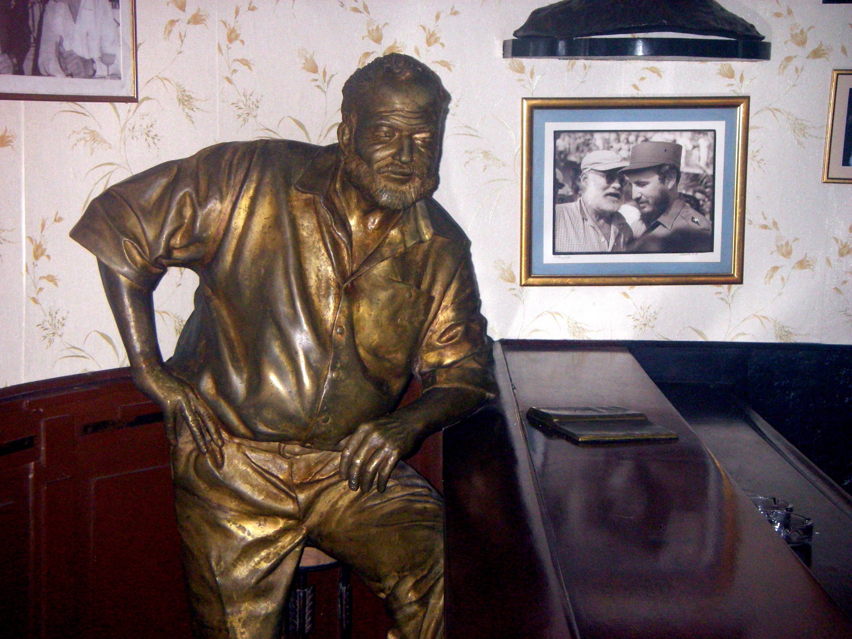 Image from the interior of the Floridita bar, in Havana, Cuba. Statue of Ernest Hemingway by Cuban artist José Villa Soberón. Photo: Frederic Schmalzbauer, own picture